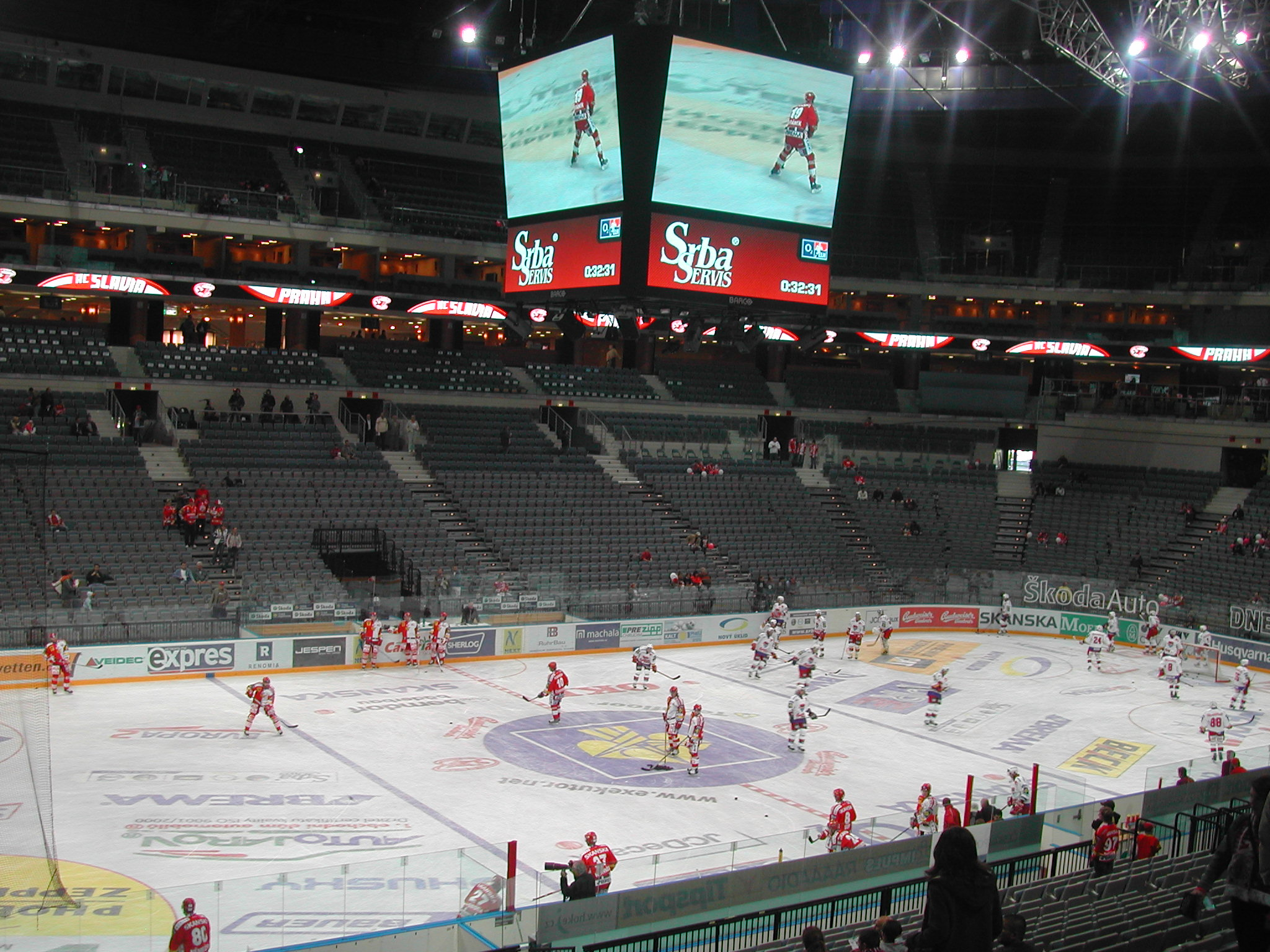 HC Slavia Praha - HC Mountfield